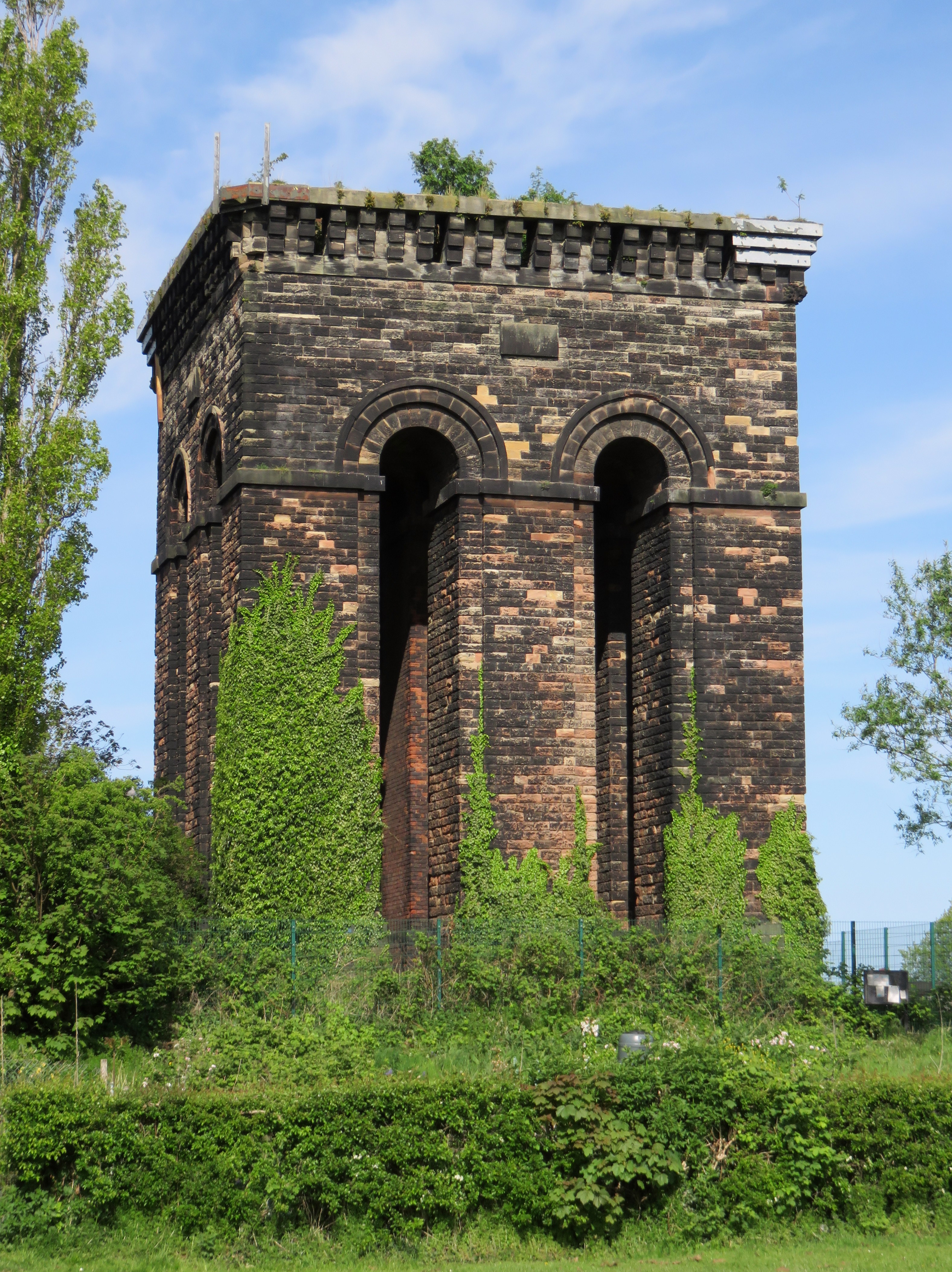 Disused water tower at Tower Hill, Ormskirk in West Lancashire, England.